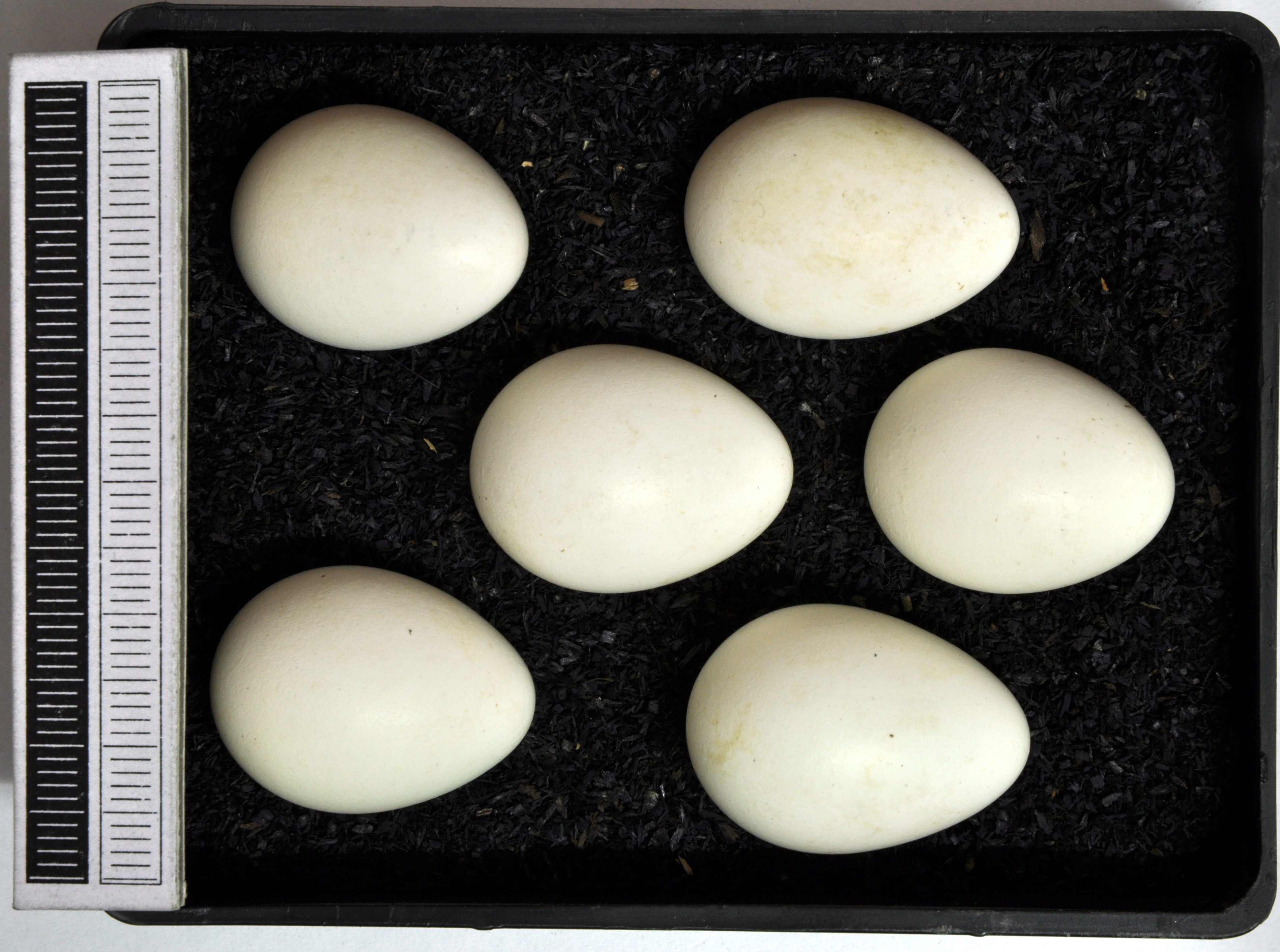 White-throated dipper Cinclus cinclus, egg, Coll. Museum Wiesbaden, Origin: Wadern-Niederlöster, Germany, 29.04.1973, leg. W. Abelmann